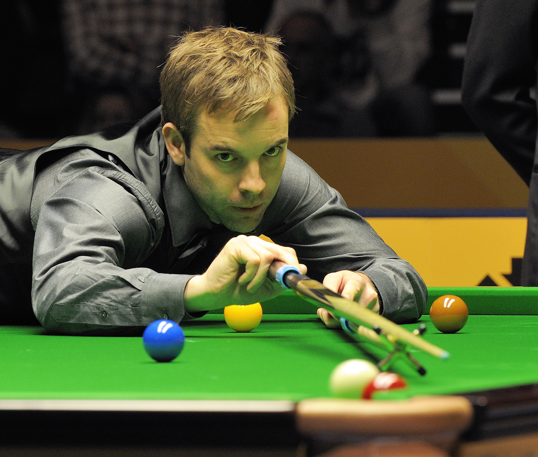 Picture taken in Berlin during the Snooker German Masters in 2013. Ali Carter.